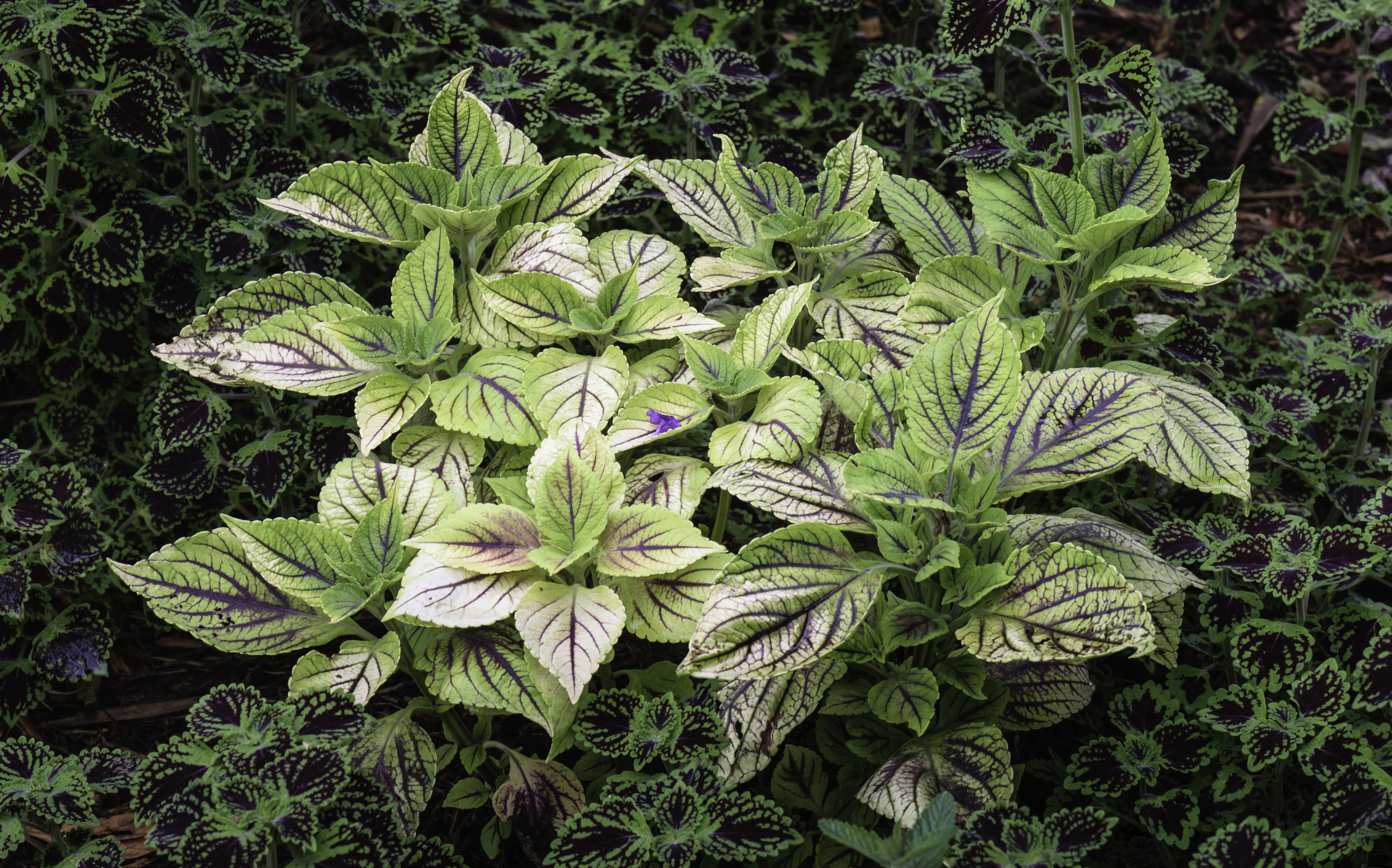 Two types of Plectranthus scutellarioides (Coleus), the lighter one is cultivar "Gay's Delight", at the Butterfly Garden at Norfolk Botanical Garden, Norfolk, Virginia. There is debate about the taxonomy. English wiki uses Plectranthus and Wiki Commons uses Solenostemon.